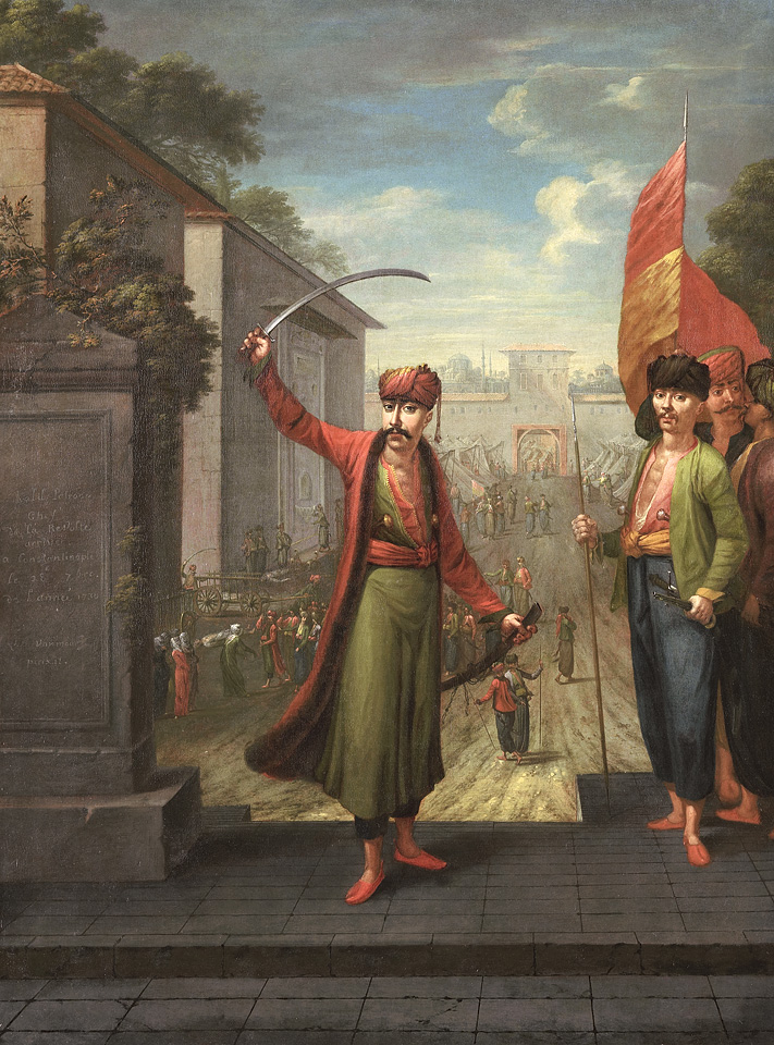 Portrait of Patrona Khalil, a former marine who instigated a mob uprising that replaced Sultan Ahmed III with Mahmud I, on February 28, 1730. Standing, full-length, with a sword in his right hand lifted, with some of his followers on the right. In the background a view of the courtyard of the Serail, with the bodies of people killed in the coup to be carried away. Part of a series of paintings with Turkish subjects from Turkey to the Netherlands by Cornelis Calkoen the ambassador and his cousin Nicholas in 1817 gelegateerd to the Executive Board of the Levant Schenardi Commerce in Amsterdam.